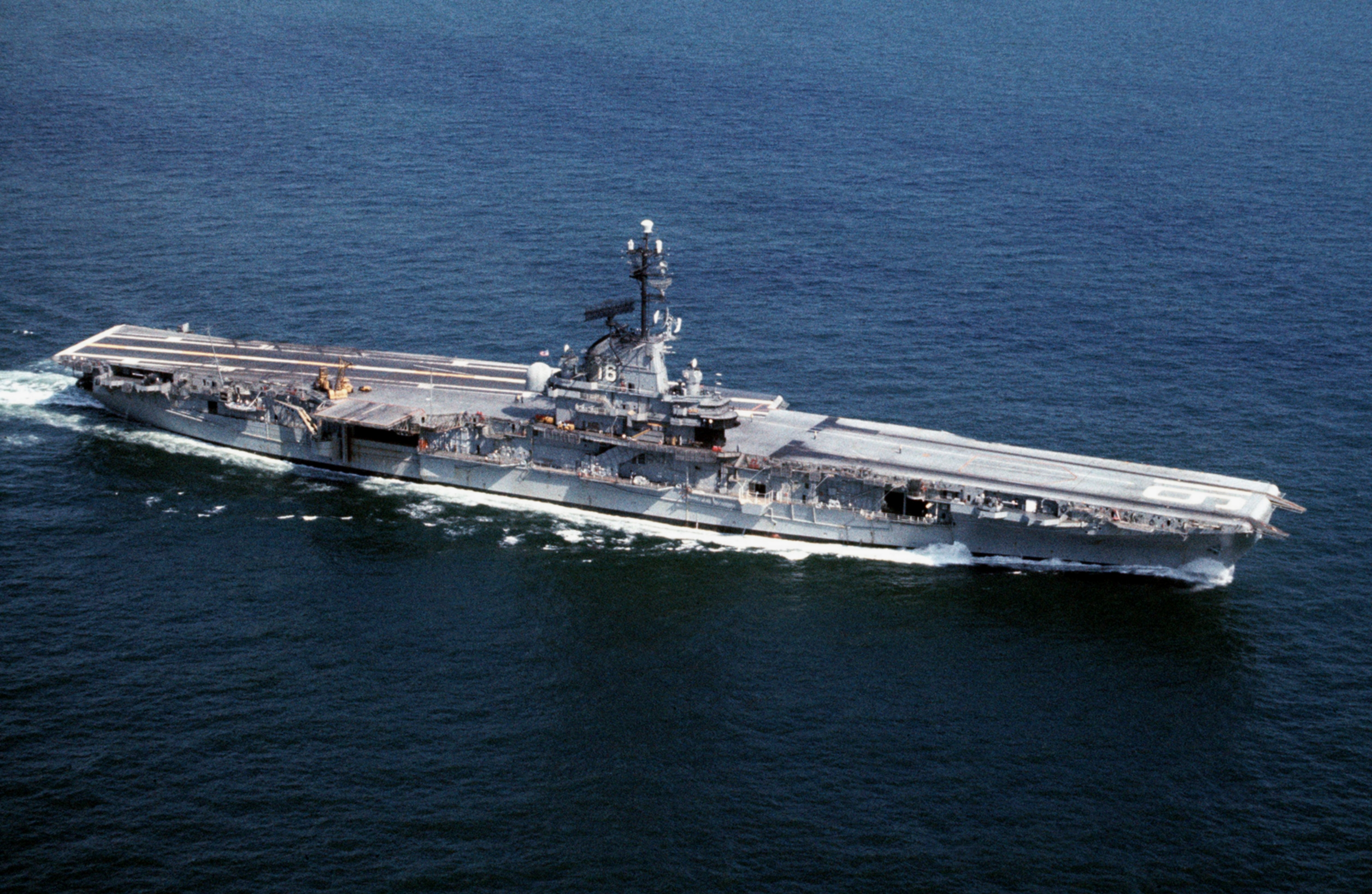 The U.S. Navy training aircraft carrier USS Lexington (CVS-16) underway. Note that the ship is still equipped with Mk 24 12.7 cm/38 open gun mounts that were removed in 1969. She also still carries her full radar complement (SPS-8A, SPS-12 and SPS-43) that was installed in 1961.